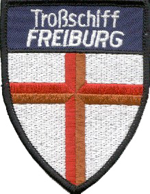 Internal coat of arms of the Bundeswehr (Armed Forces of the Federal Republic of Germany). → Remarks on naming and categorization scheme